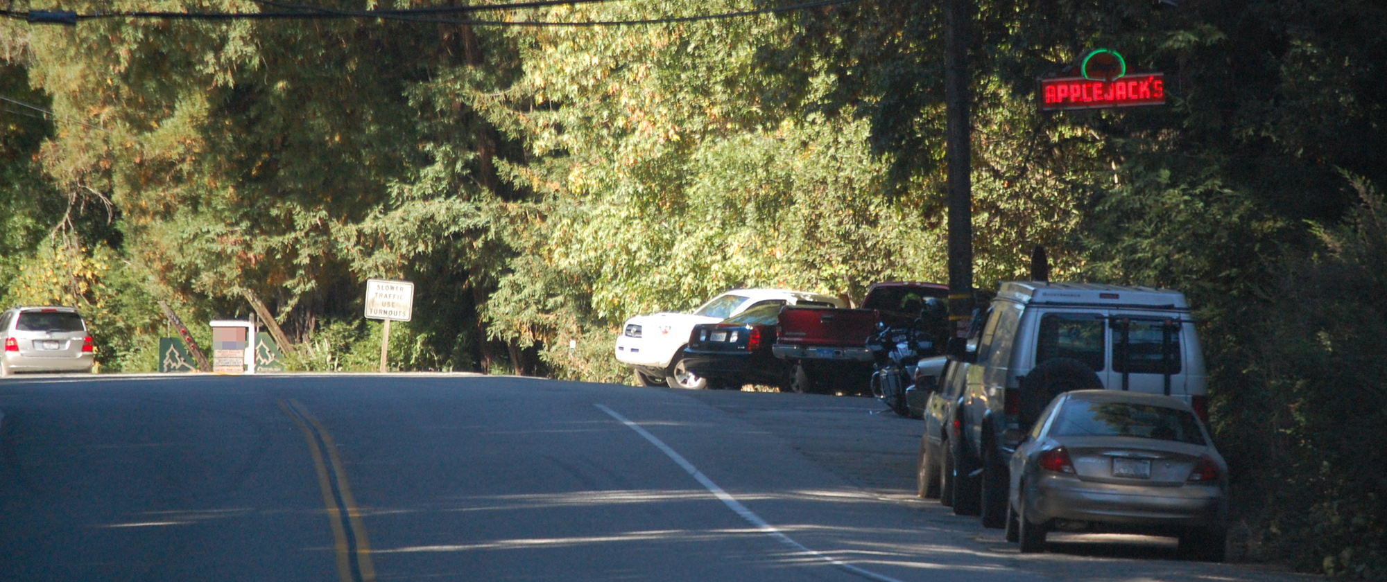 This facility is a local landmark in the community of La Honda, California, (San Mateo County). Images may have been altered using filters or camera settings. Software may have been used to adjust image attributes such as image file format, image size, composition, contrast, or colors.